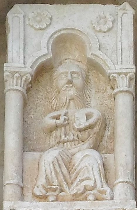 The Creator God (14th century) in the lunette of the 15th century Church of the Holy Spirit (Crkva sv. Duha), City of Hvar - close-up view